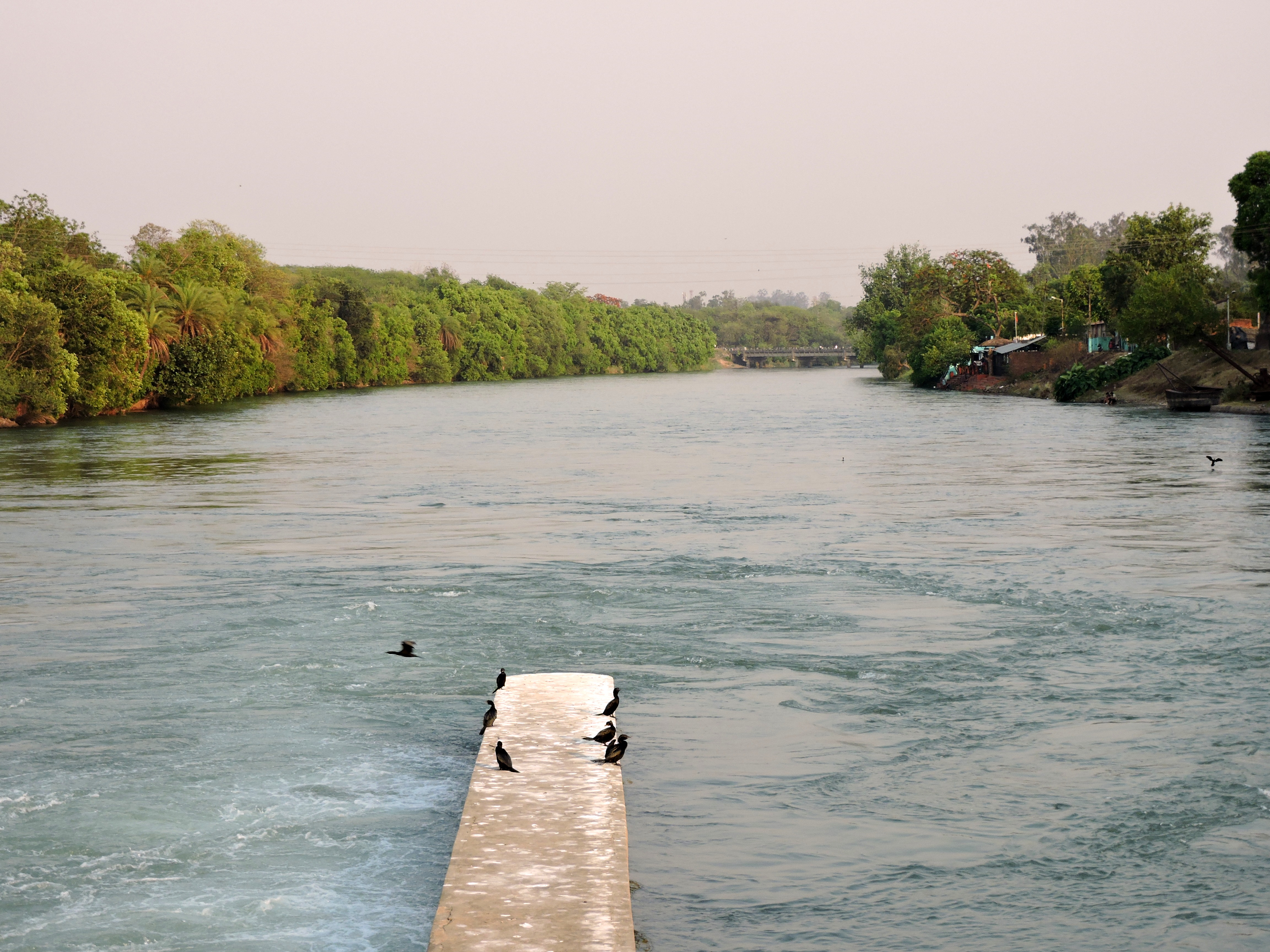 Ropar wetland outlet,at Satluj river, Ropar, Punjab, India